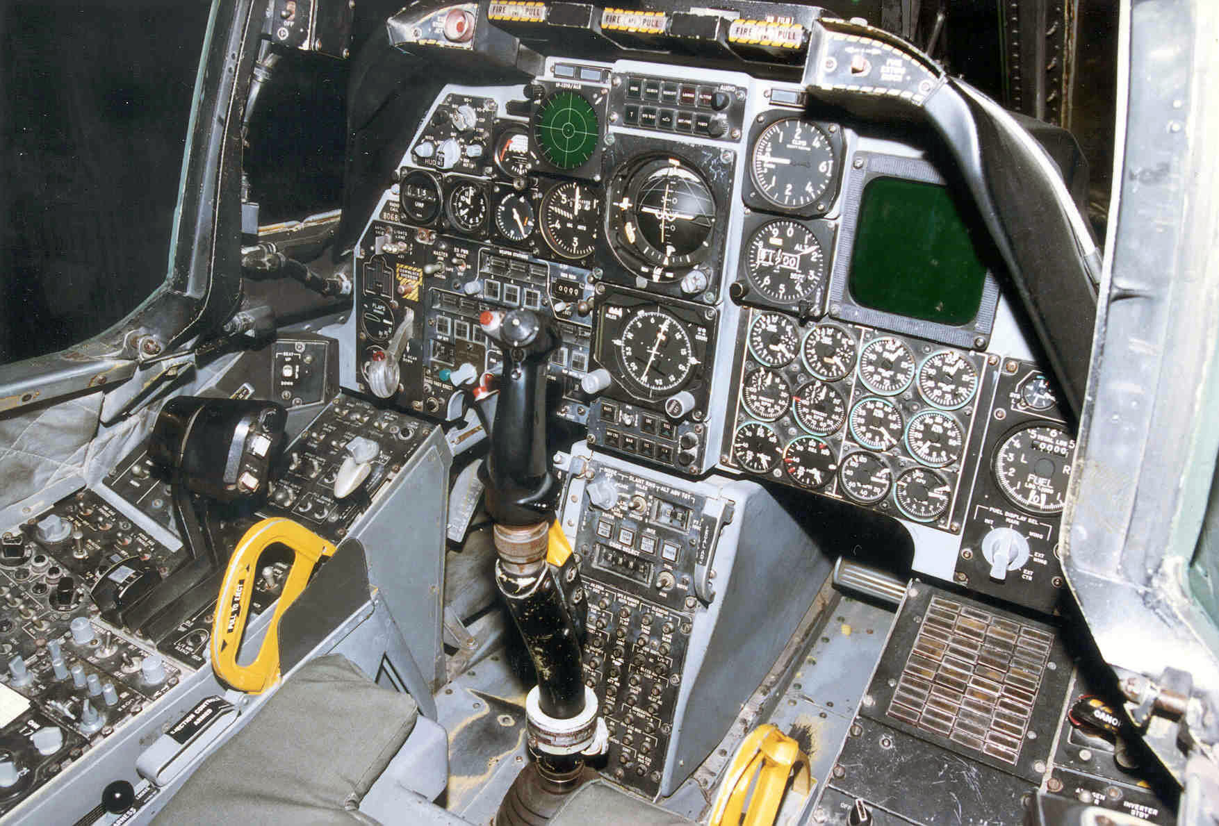 DAYTON, Ohio - Fairchild Republic A-10A Thunderbolt II cockpit in the National Museum of the U.S. Air Force.